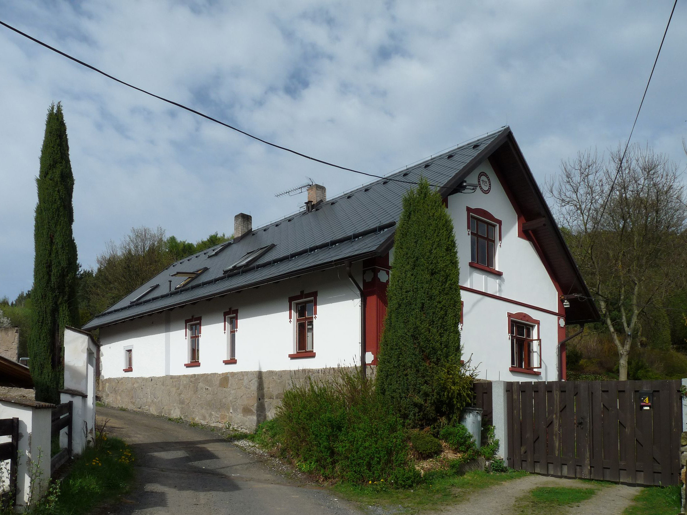 House No 4 in the municipality of Chlistov, Klatovy District, Czech Republic